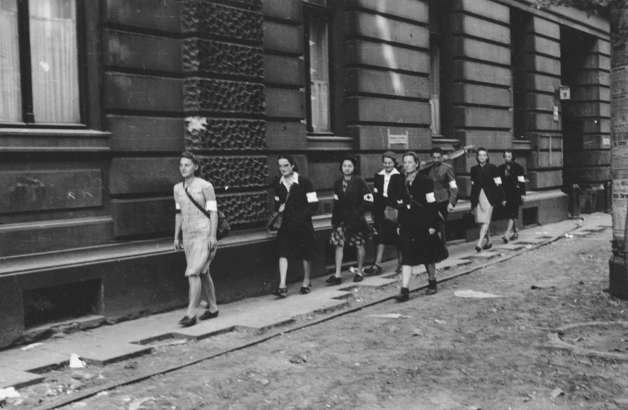 WarsawUprising: Medical unit at 9 Moniuszki Street on August 5, 1944. From the left: Elżbieta (Gabriela) Karska "Joasia" (wounded on Sep. 7 on Nowy Świat Street), regional head of medical units dr. Zofia Lejmbach "Róża" (wounded on Sep. 7 in hospital at Chmielna St.), Danuta Laskowska "Dorota", NN "Małgorzata", Halina Wojtczak-Fijałkowska "Halszka" (wounded on Aug. 24 during attack on Police Station), Wanda Grochowska-Święcińska "Alicja", dr. Danuta Staszewska "Marta" (died on Sep. 7 on Nowy Świat Street). On the side: Melania Staniewicz–Wolska "Ewa–Samarytanka".